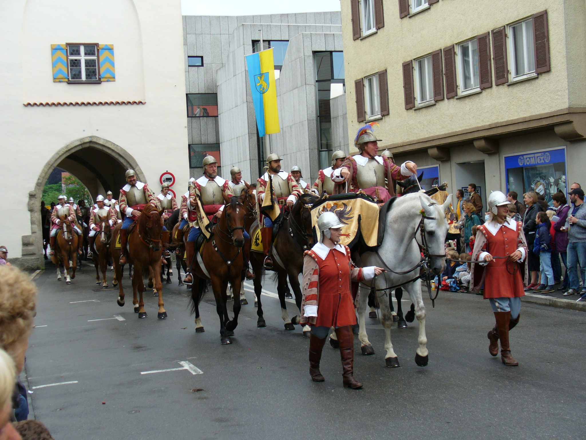 Schützenfest - Biberach an der Riß